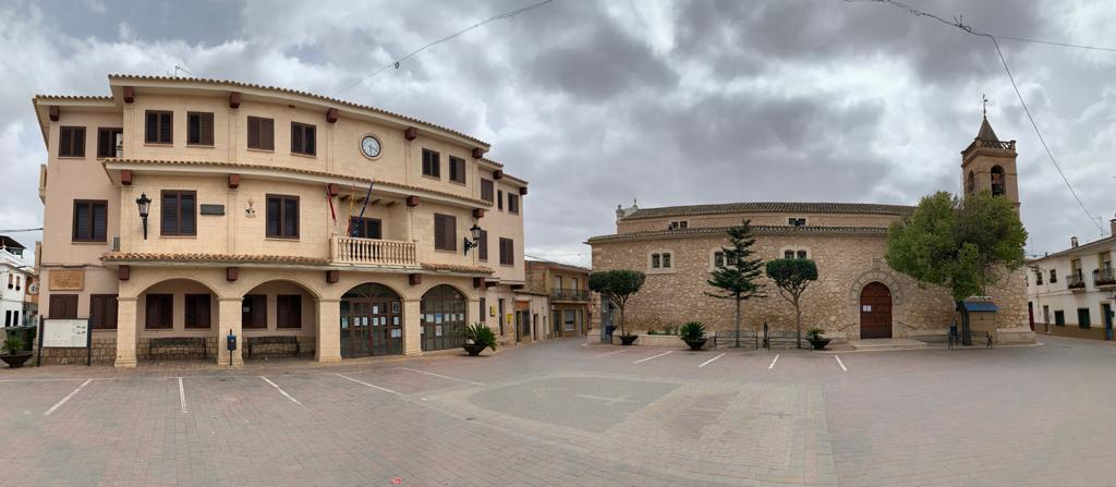 Panoramic photo in which we can see the town hall on the left and in the center the Church of the Most Pure Conception